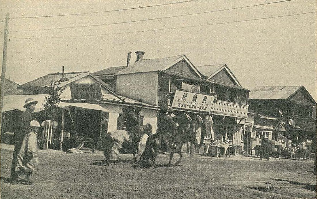 A street in Hailar in the first half of the 20th century.